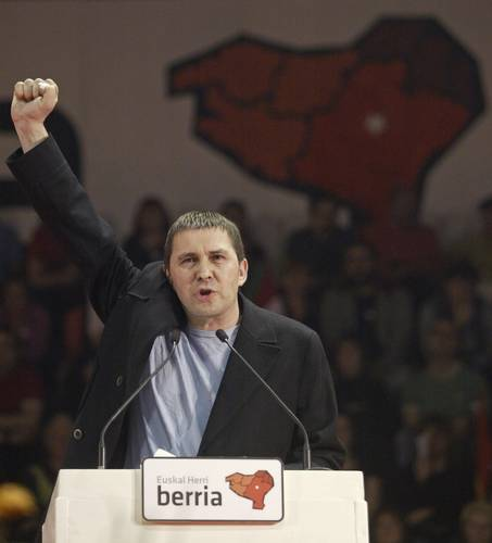 Arnaldo Otegi, basque independentist politician.